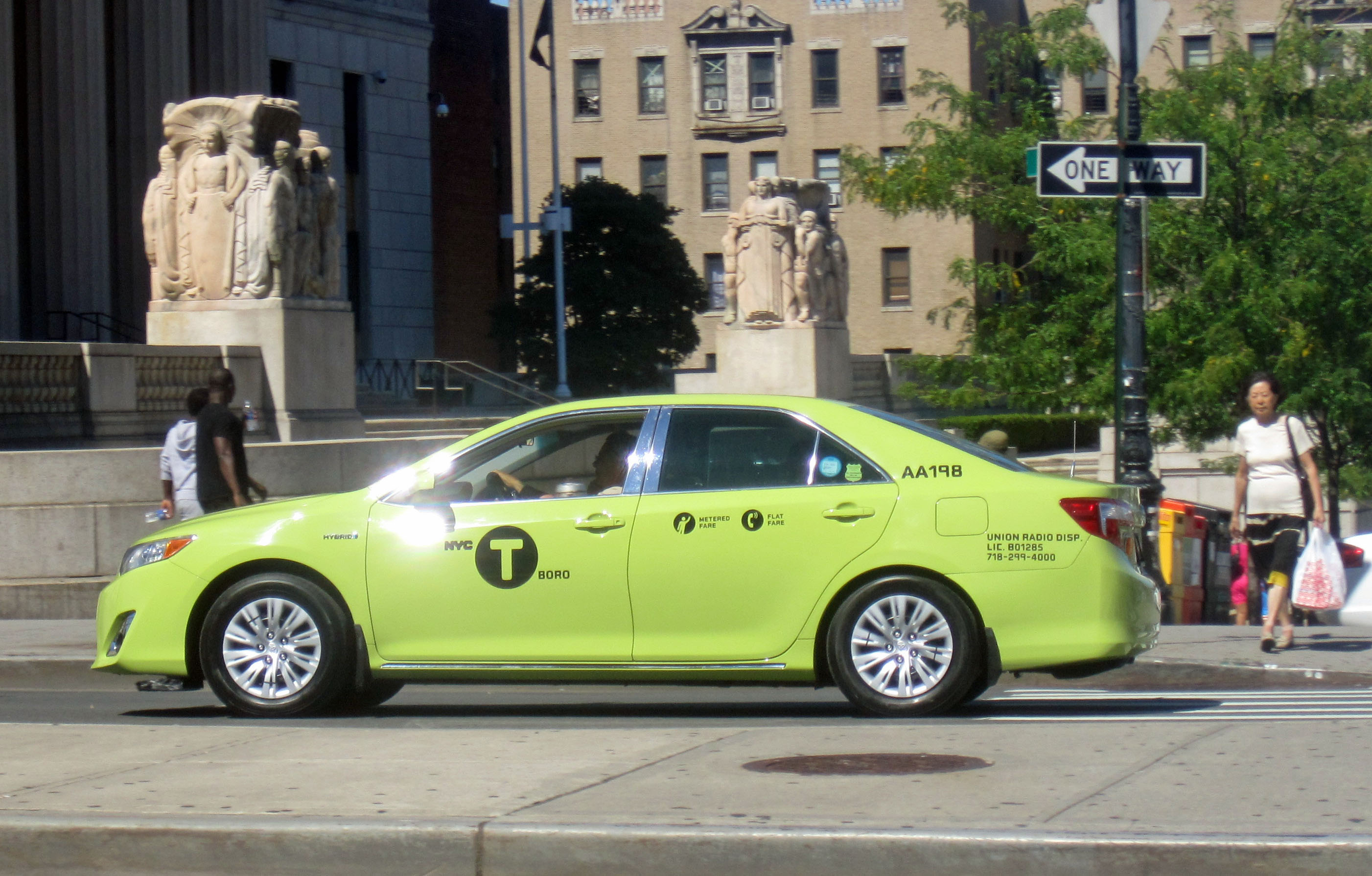 This is a photo of a new green "boro taxi" taken August 24, 2013, at 161st Street and the Grand Concourse in the Bronx.